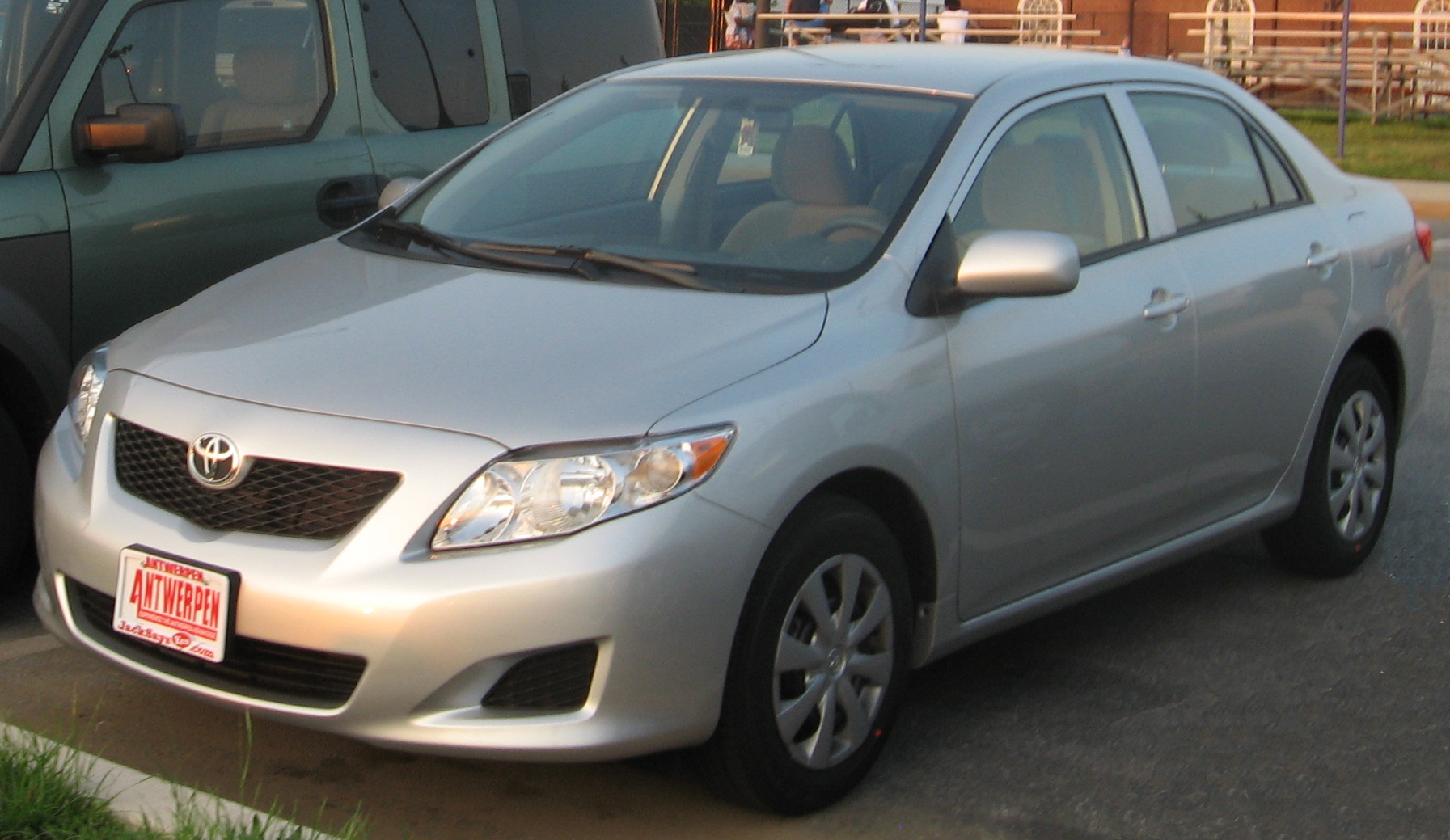 2009 Toyota Corolla photographed in College Park, Maryland, USA.